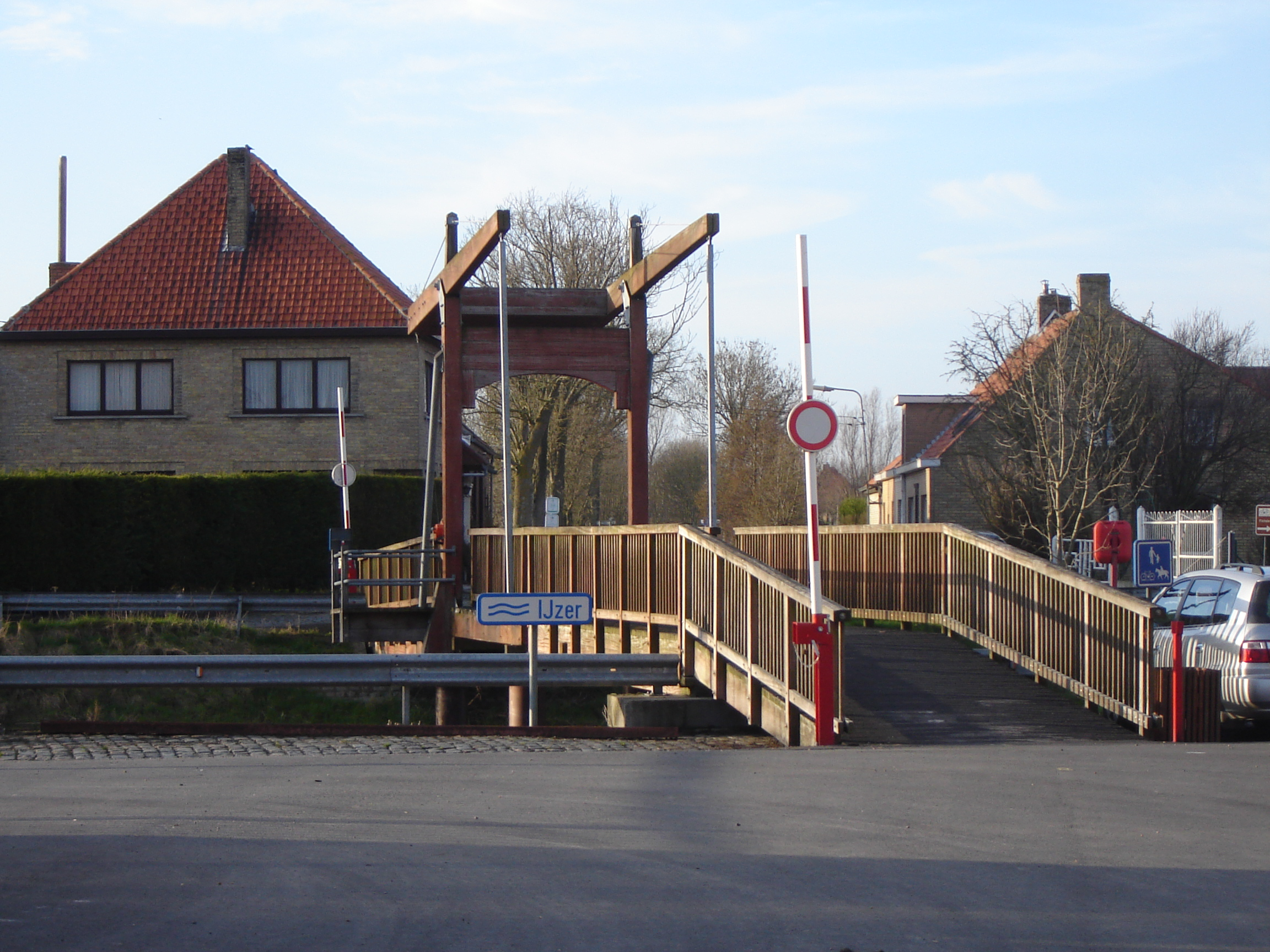 Footbridge over the Yser in Elzendamme on the border of Pollinkhove en Oostvleteren. Elzendamme, Pollinkhove, Lo-Reninge, West Flanders, Belgium and Oostvleteren, Vleteren, West Flanders, Belgium